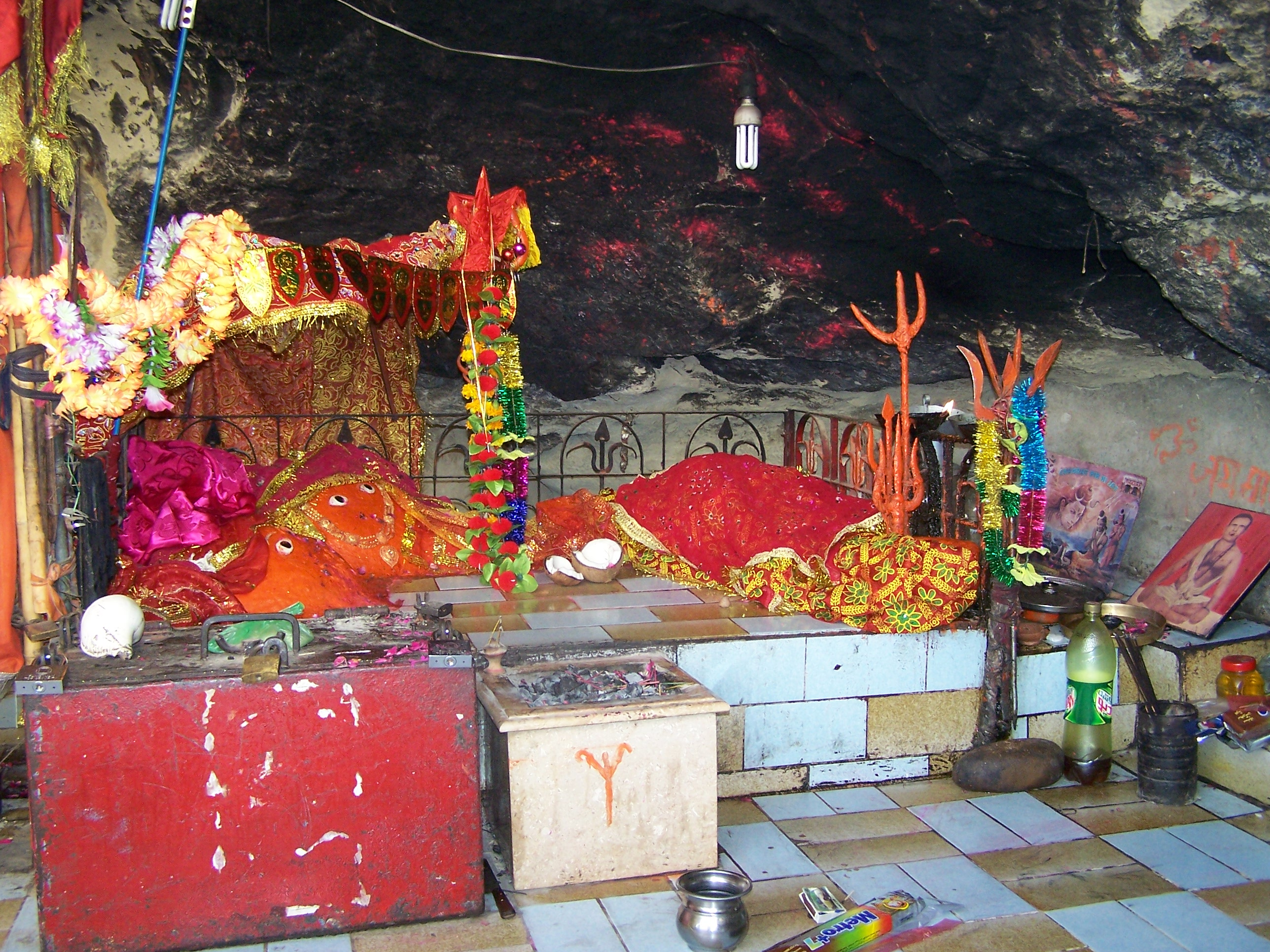 Nani Ki Mandir